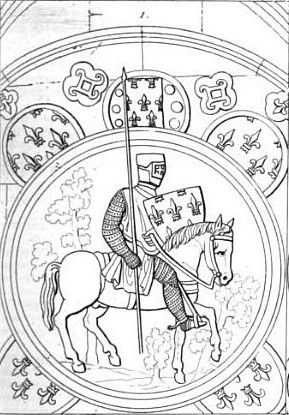 Louis VIII - Chartres